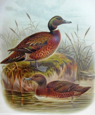 Brown Teal. Left, Anas chlorotis sometimes called the New Zealand Teal. Right, Anas aucklandica, the Auckland Island Teal.